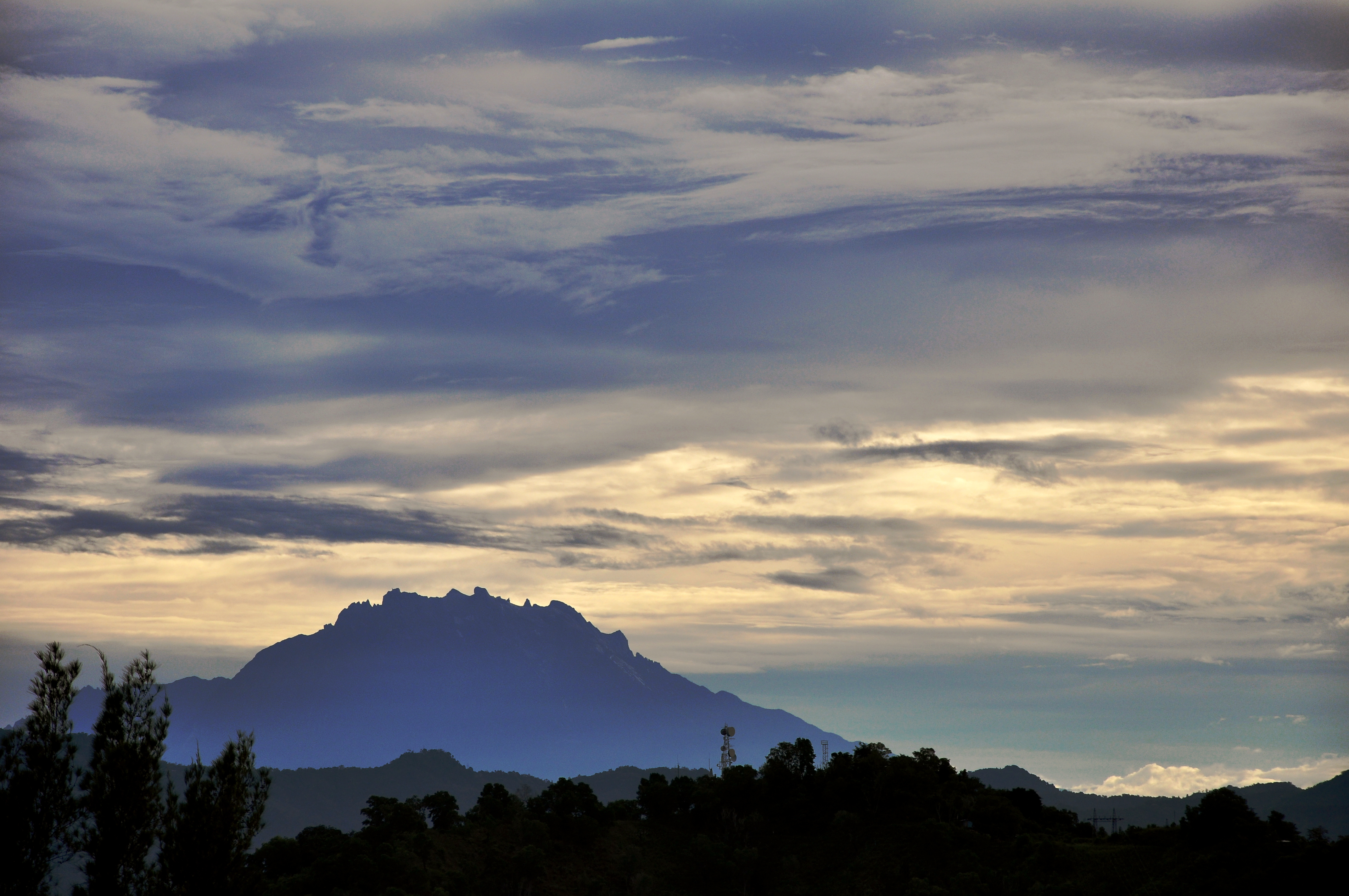 Mount Kinabalu, Sabah, Malaysia. Photo taken from Tanjung Aru (near Kota Kinabalu) on a cloudy morning.